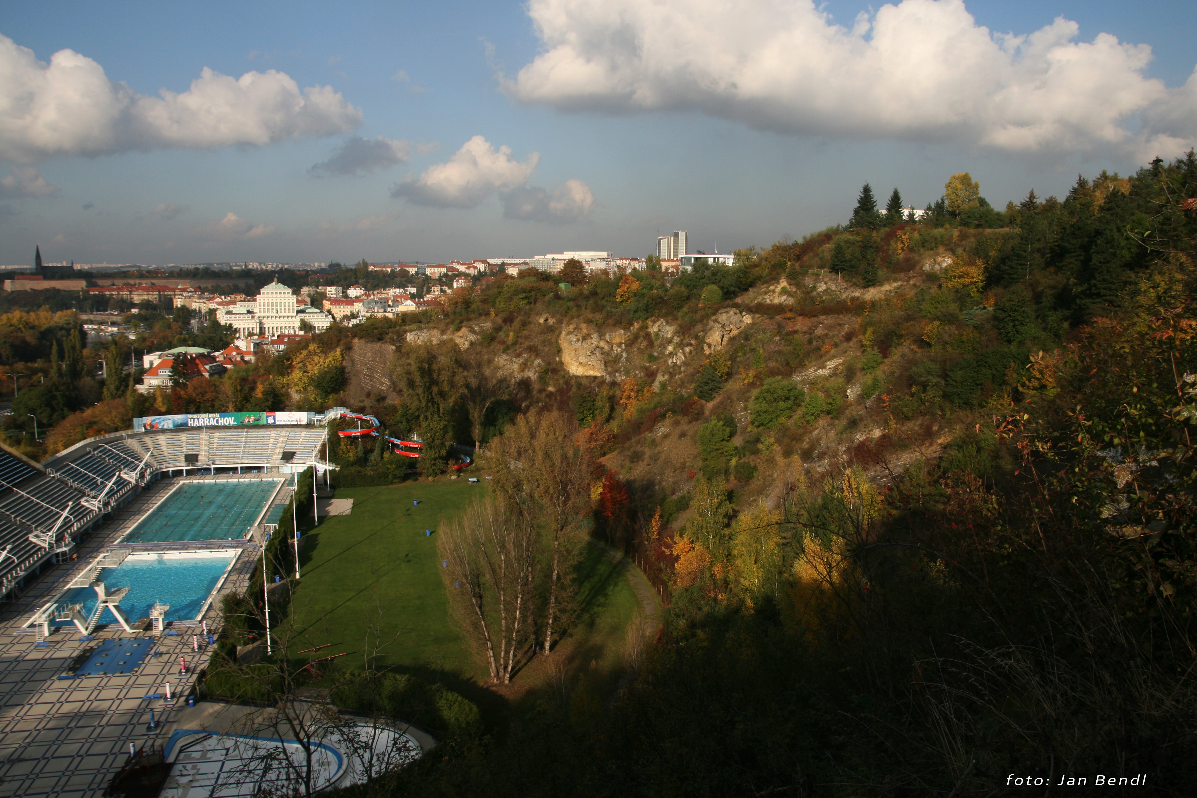 Natural monument Podolský profil in Prague, Czech Republic